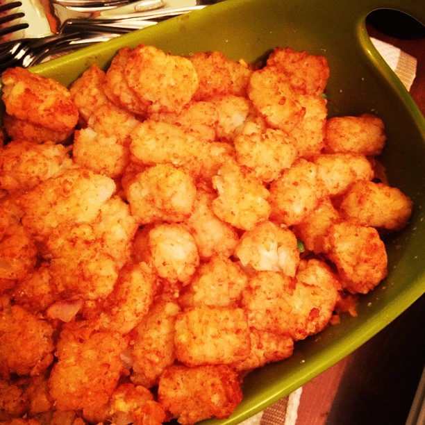 Tater tot hotdish 8286689740 o